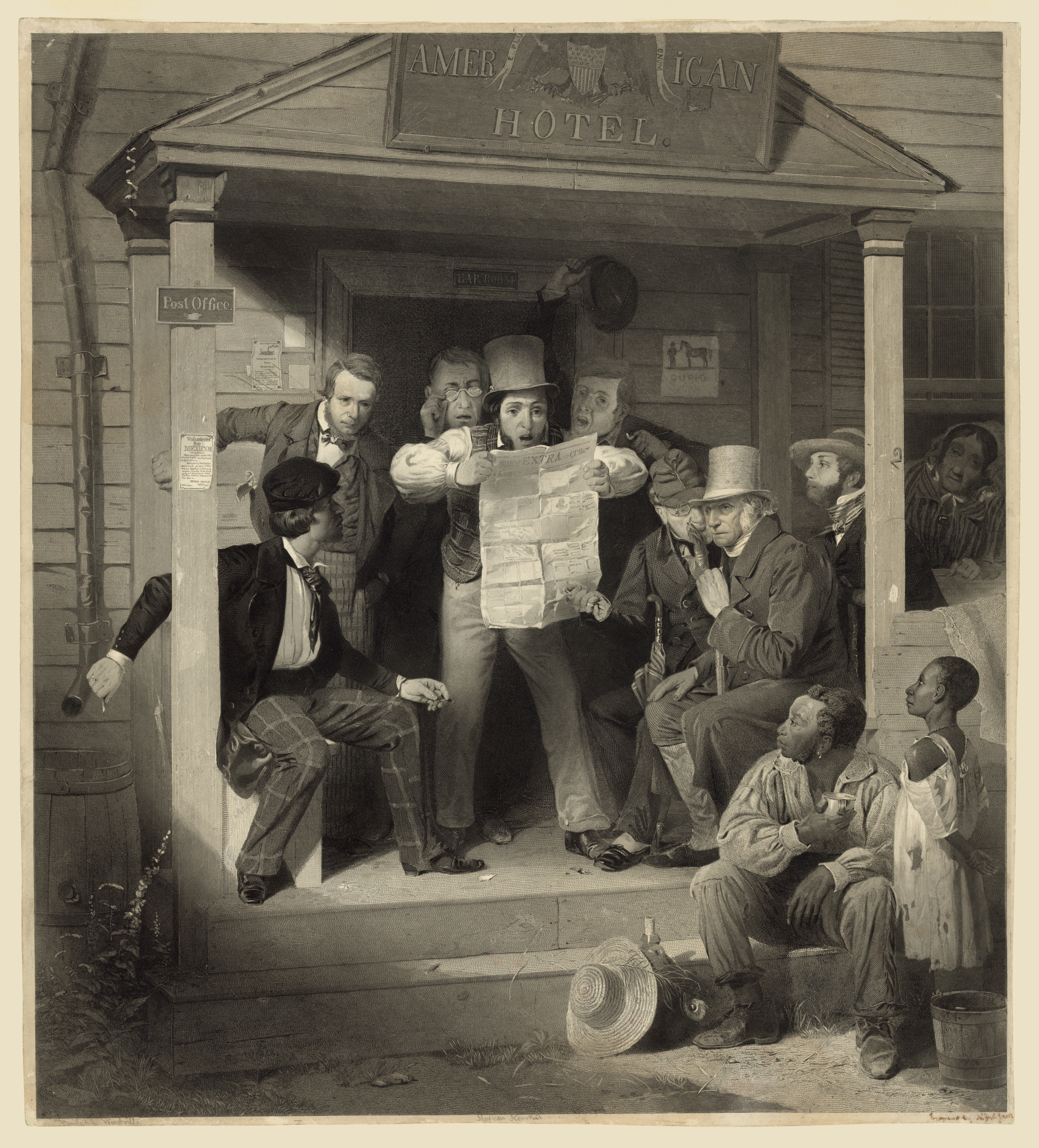 Title: Mexican news Abstract/medium: 1 print : etching and engraving.